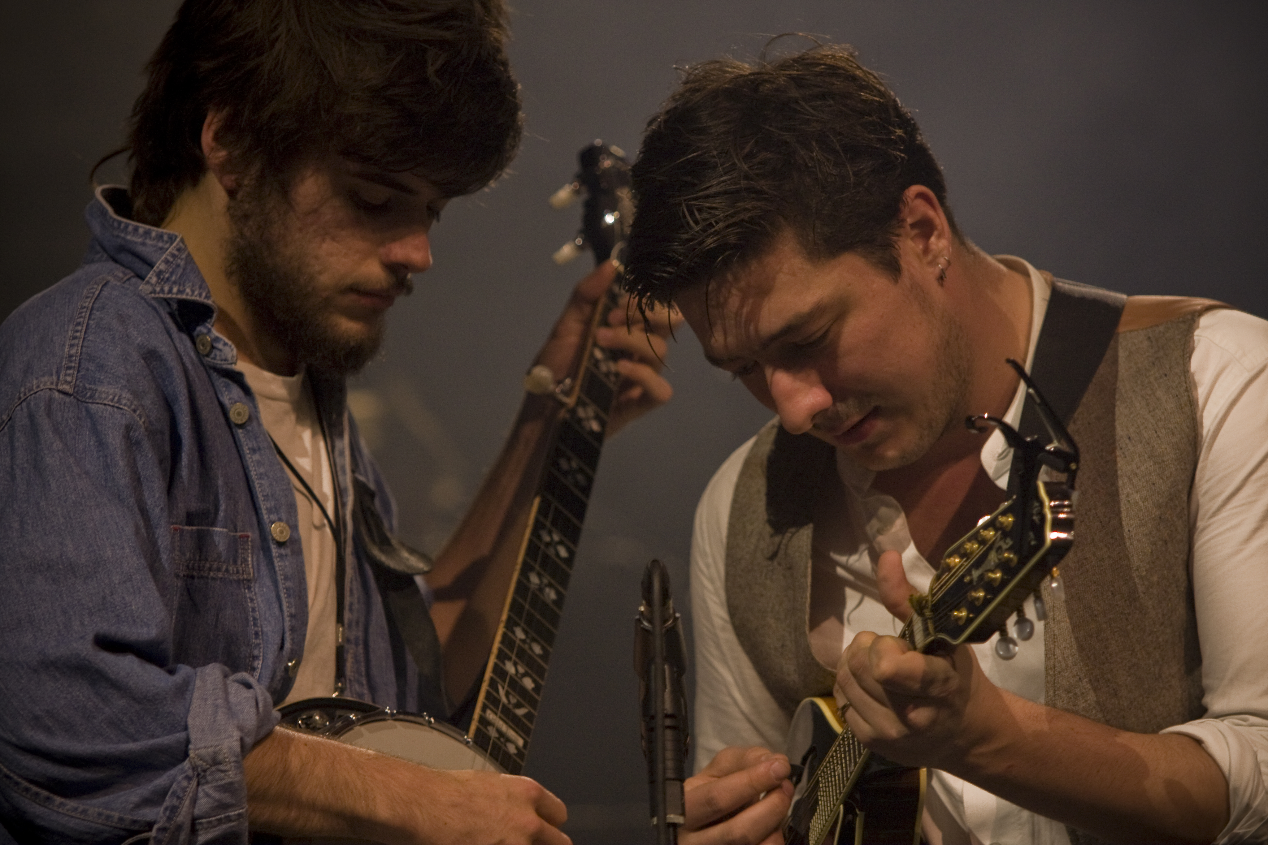 Mumford & Sons Live at Koninklijk Circus 2010